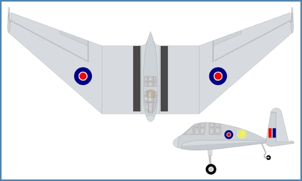 GAL56 Medium U